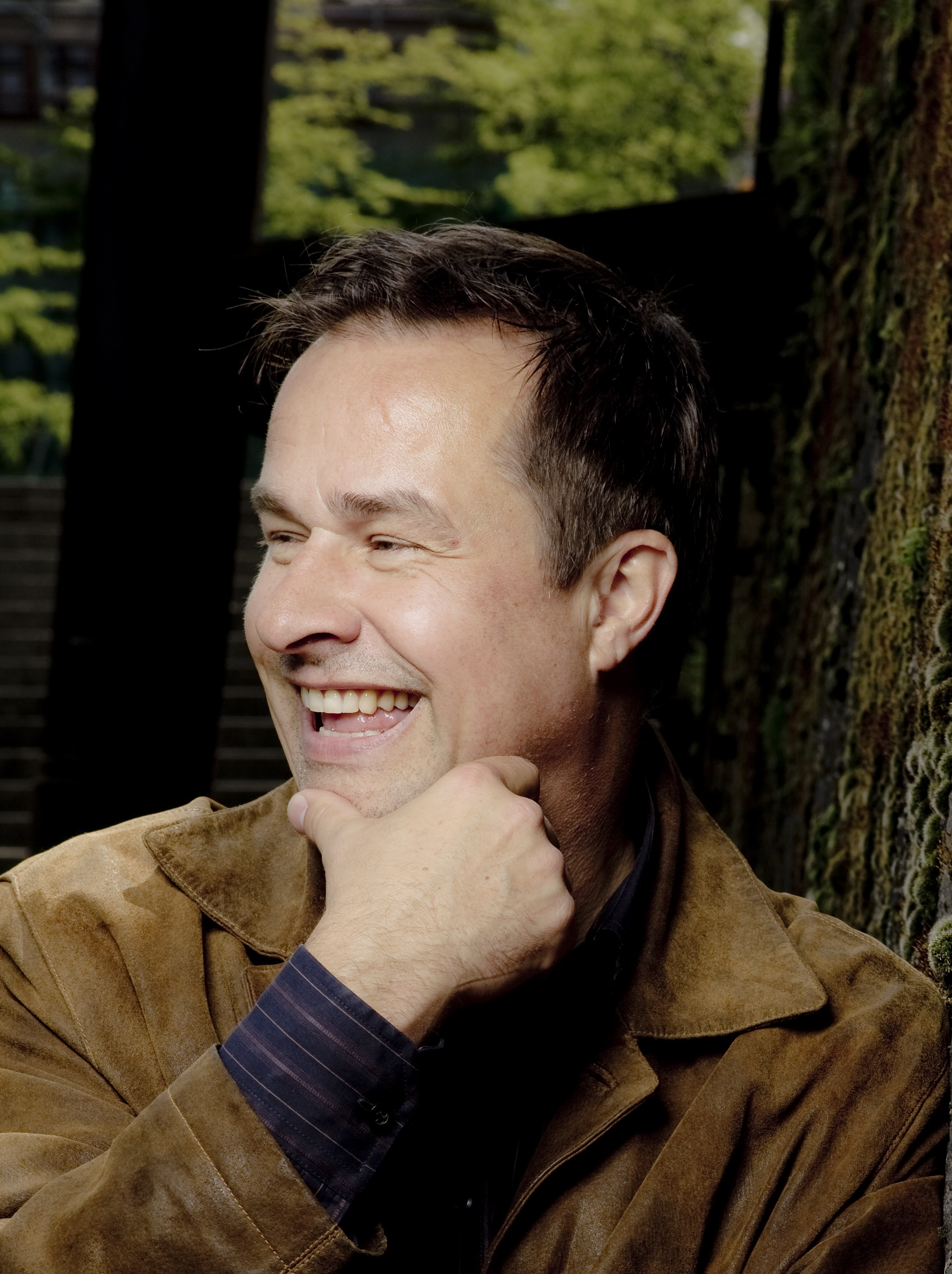 German comedian Lars Reichow